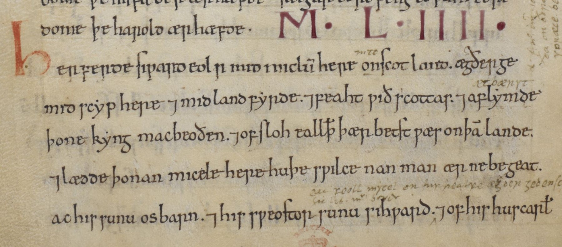 The beginning of the entry for the year 1054 in MS D of the Anglo-Saxon Chronicle (the "Worcester Chronicle")